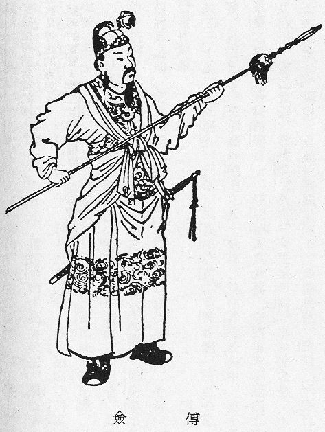 Portrait of the officer Fu Qian from a Qing Dynasty edition of The Romance of the Three Kingdoms.